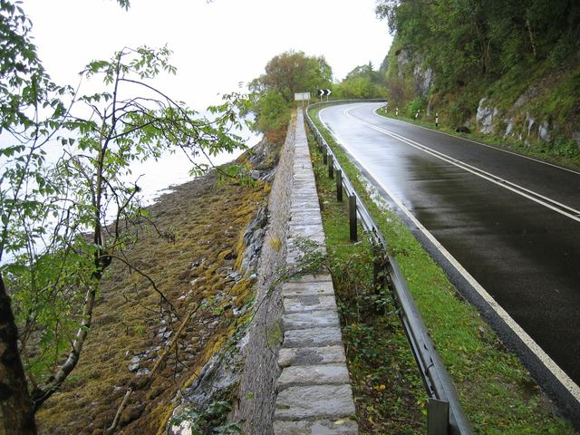 Retaining wall A wall supporting the embankment of the A82 by the shore of Loch Linnhe.